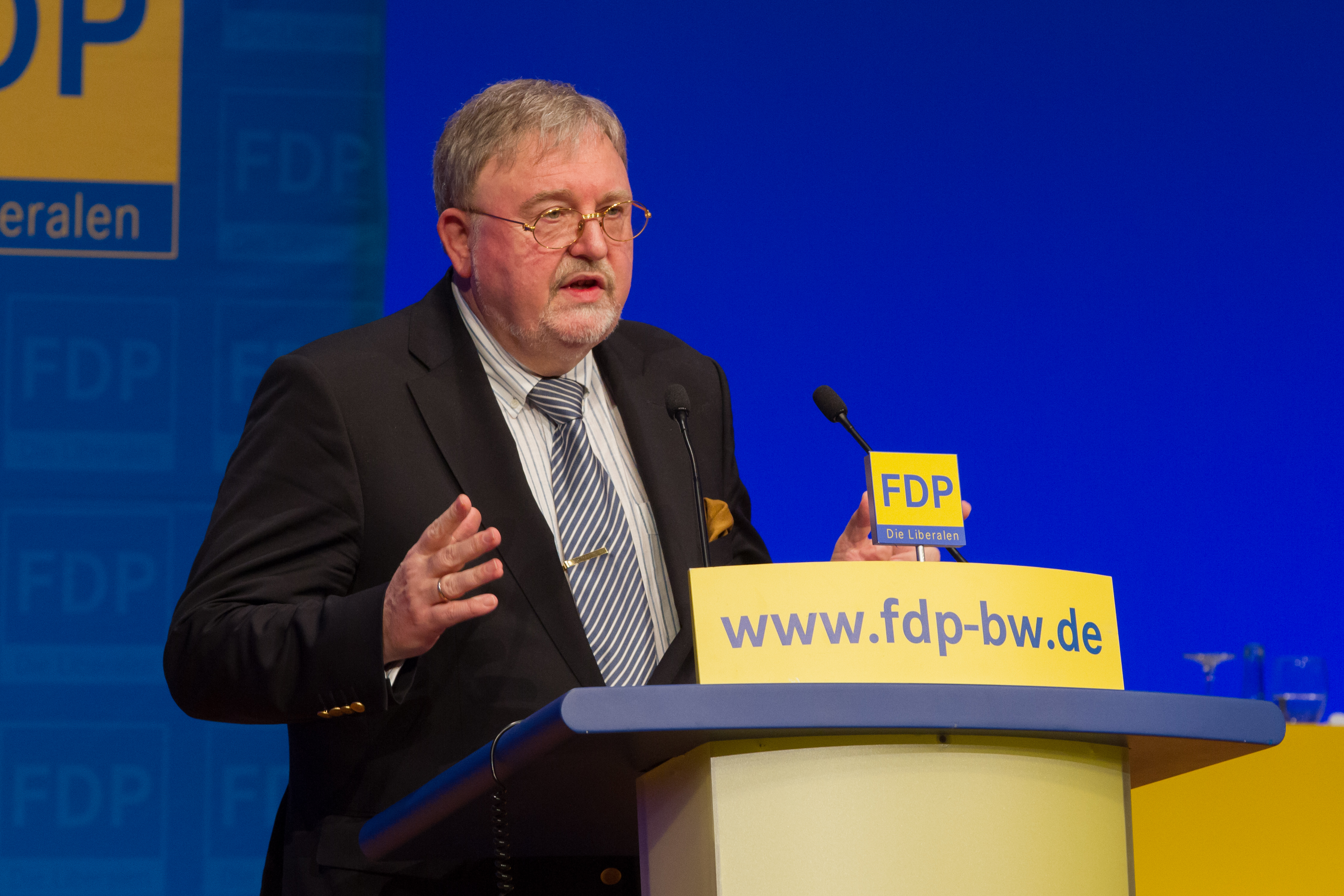 Series: 112th regular party convention of the FDP Baden-Württemberg in Stuttgart on January 5th, 2015 Image: Roland Kohn